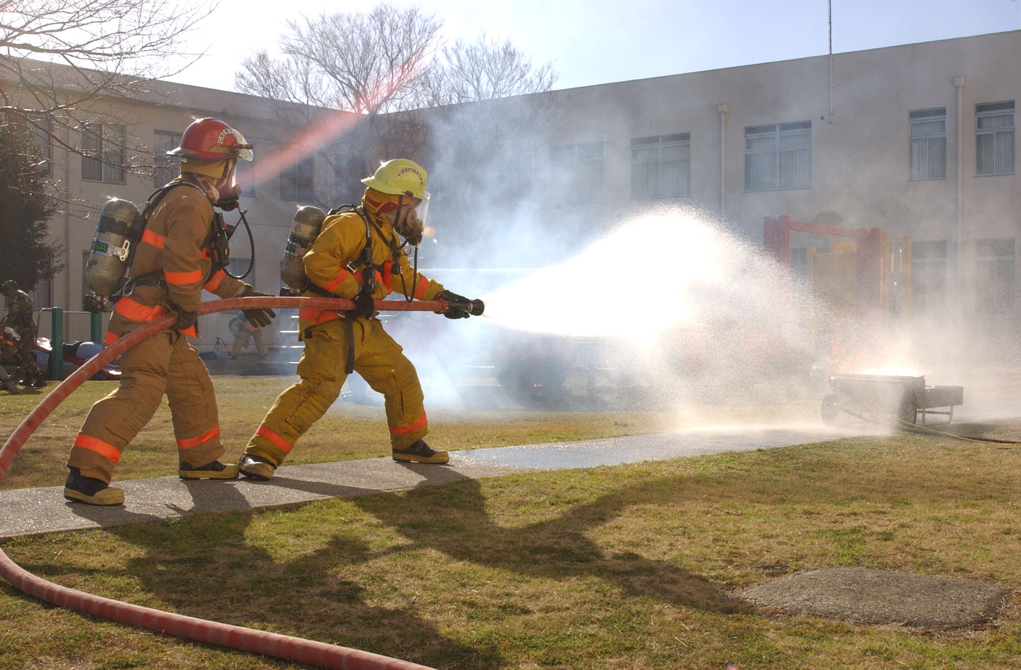 U.S. Naval Hospital Yokosuka, Japan (Feb. 25, 2004) – Members of the Commander U.S. Naval Forces Japan Regional Fire Department respond in a simulated mass casualty. The hospital participates in frequent drills with fire fighters, security, and the local Japan Self Defense Force. U.S. Naval Hospital Yokosuka provides healthcare and preventive medicine services to the forward-deployed U. S. Seventh Fleet and beneficiaries who support the Fleet throughout the western Pacific. U.S. Navy Photo by Tom Watanabe. (RELEASED)